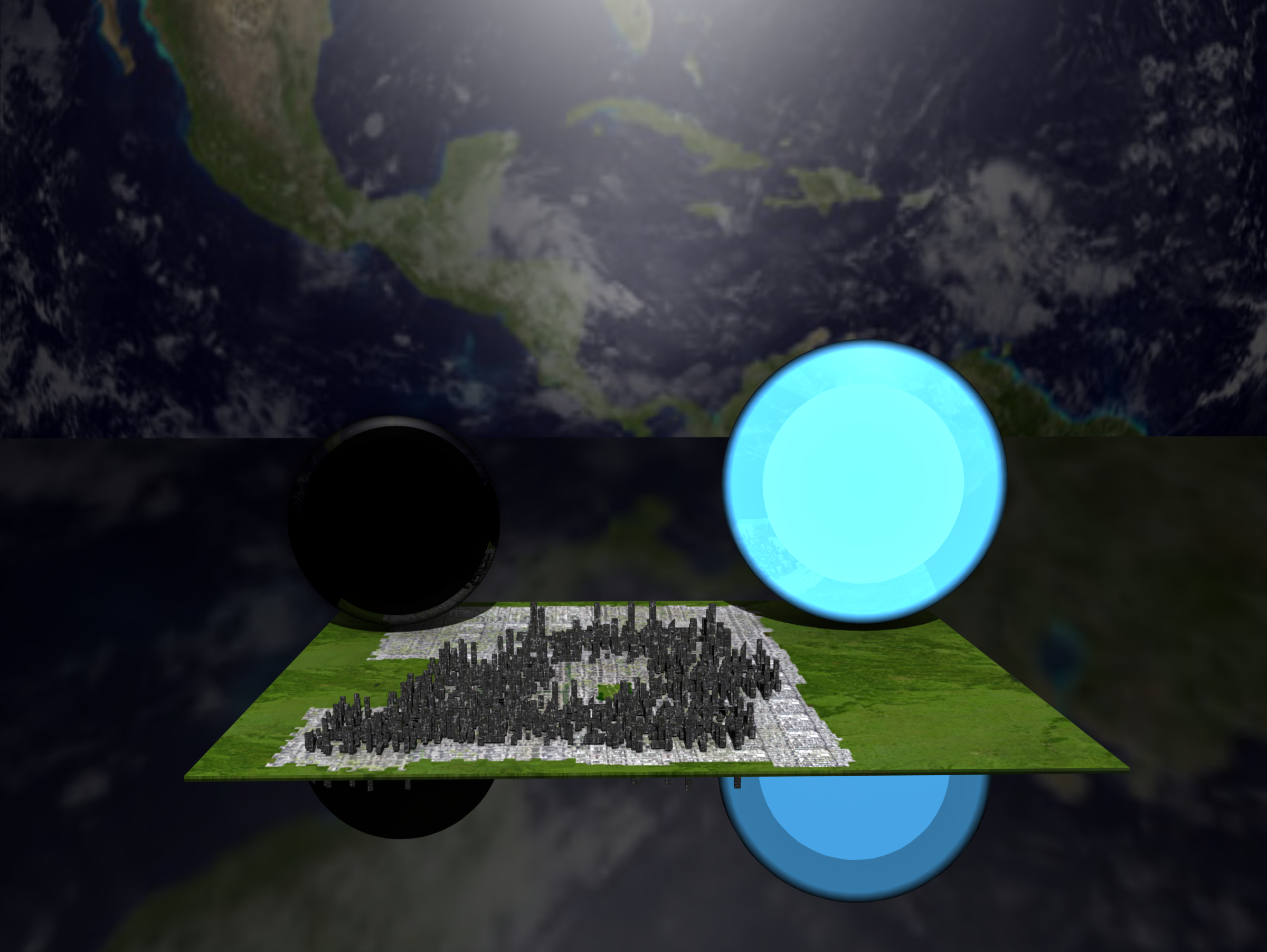 Sizes of a stellar mass black hole, neutron star, and a simulated city on a 40km x 40km block